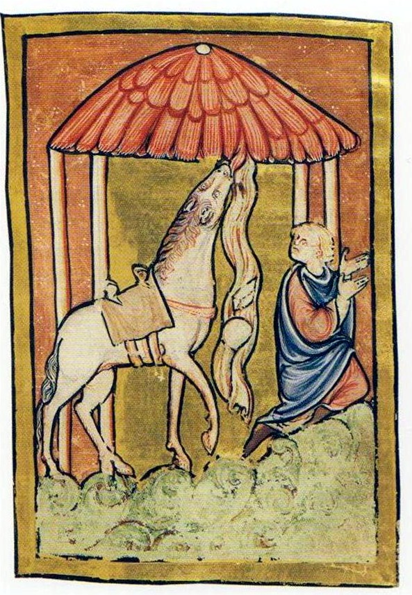 A miniature in the British Library Yates Thomson MS 26, with Saint Cuthbert horse finding food near the river Wear in winter